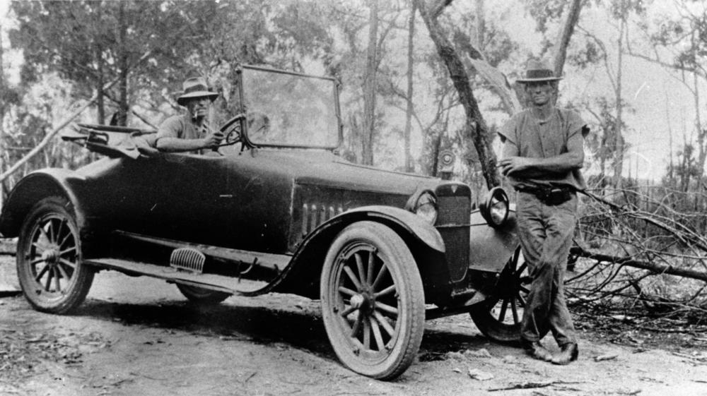 Joe and Will Gibson in their Hudson roadster, Blackbutt, 1929 USA built Hudson Model Six-40, series G-six from late 1915 to early 1916.